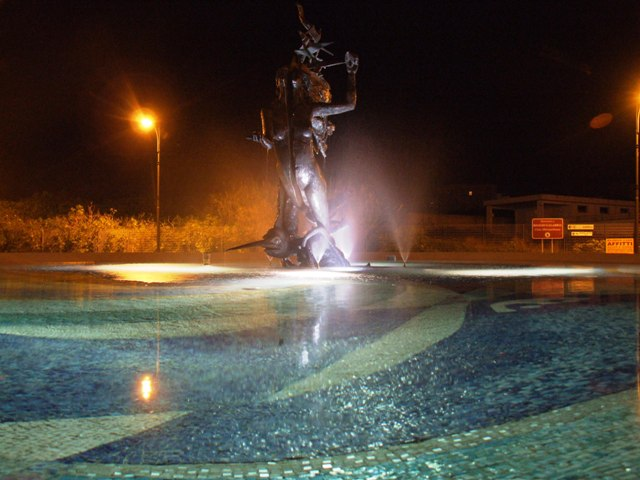 Fountain